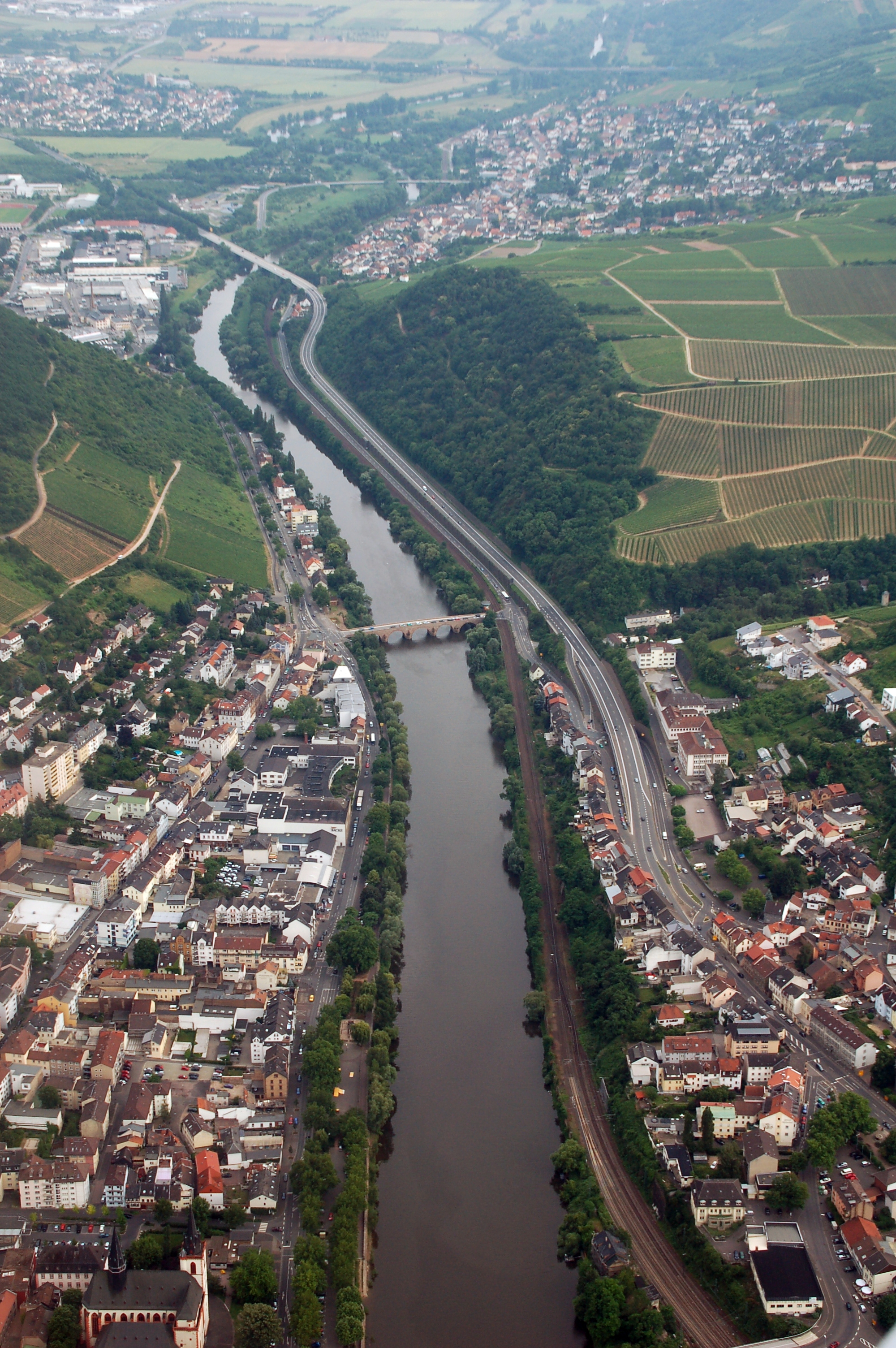 Aerial photograph of Bingen, Rhineland-Palatinate, Germany